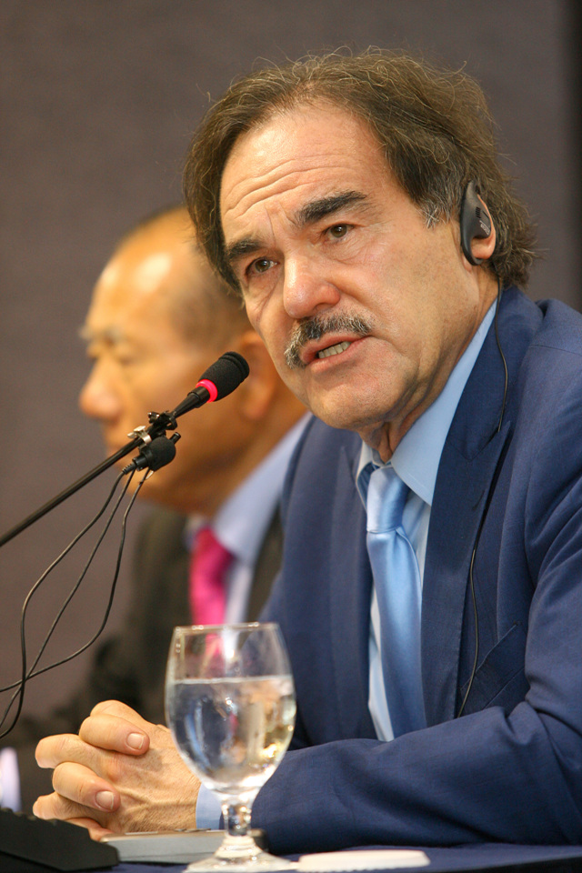 Gala Presentation at Pusan International Film Festival 2010